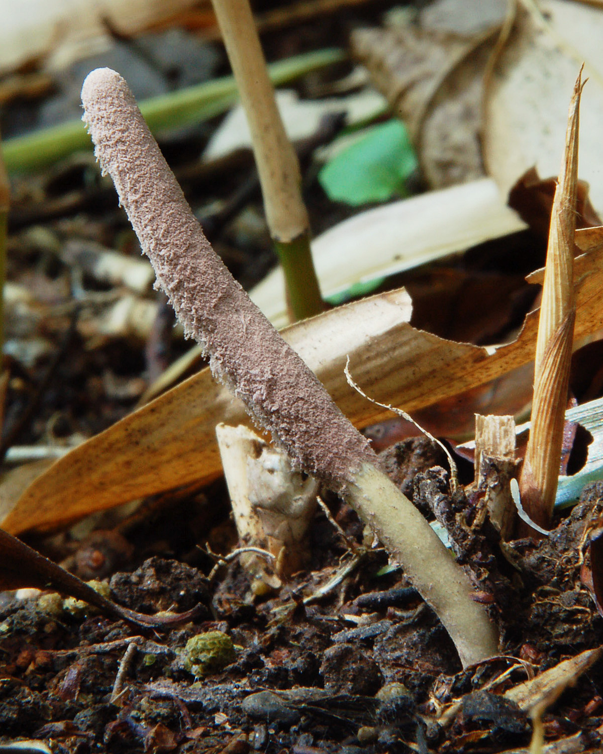 Nomuraea atypicola. Photographed at Hongo, Bunkyo-ku, Tokyo, Japan.